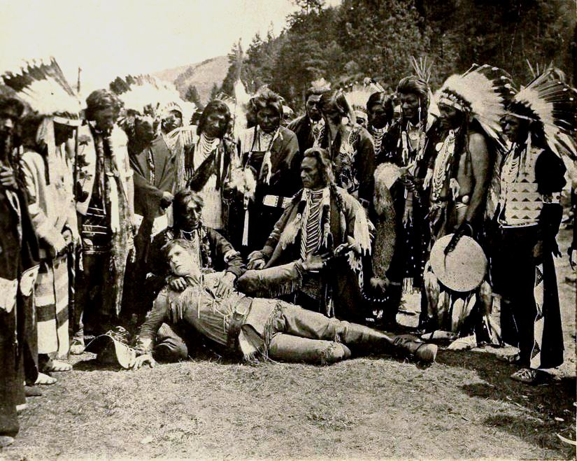 Still from the American western film Told in the Hills (1919) with Robert Warwick, page 1332 of the August 16, 1919 Motion Picture News. This was taken on location with the Nez Perce